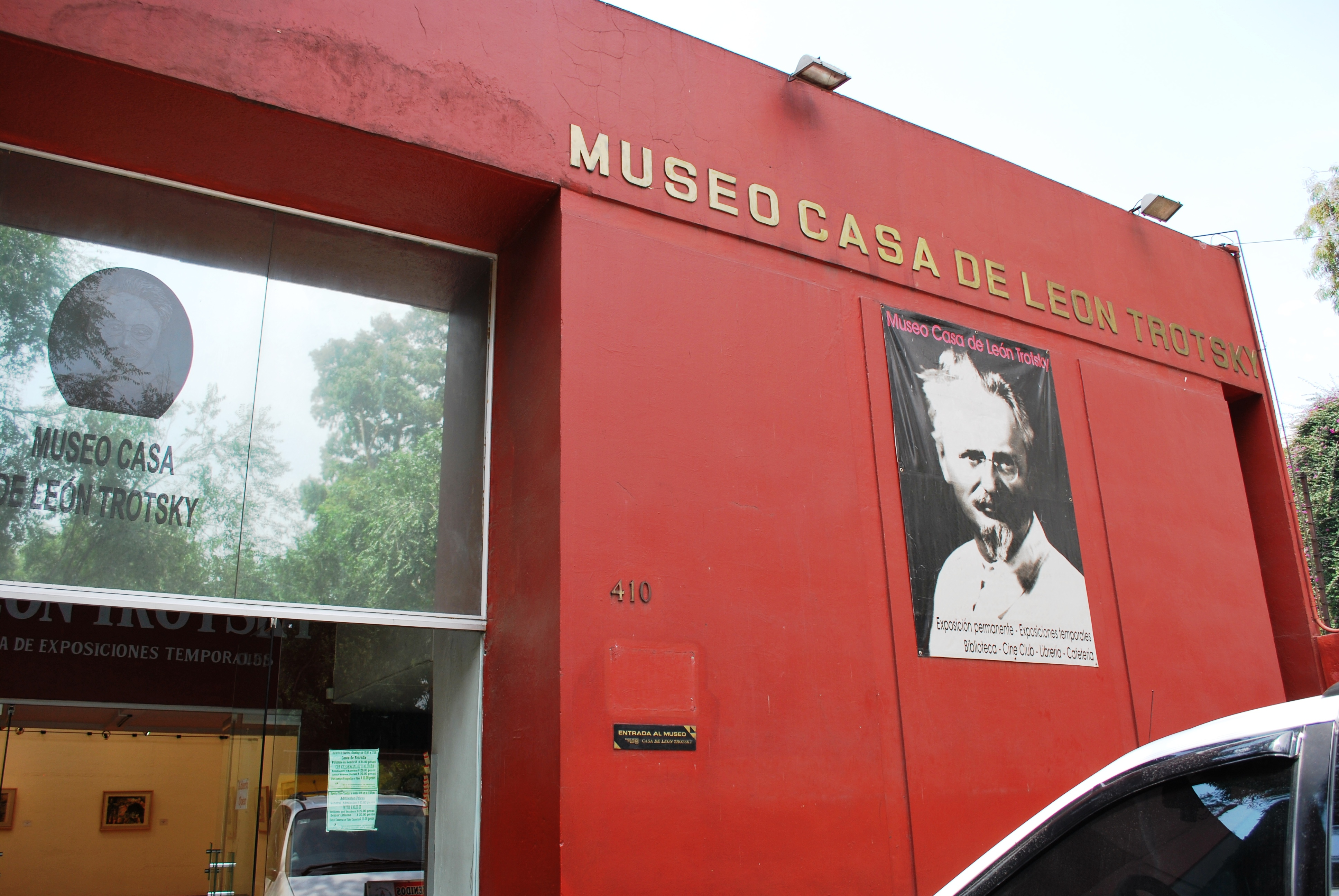 Facade of the House of Leon Trotsky Museum in Coyoacan borough in Mexico City